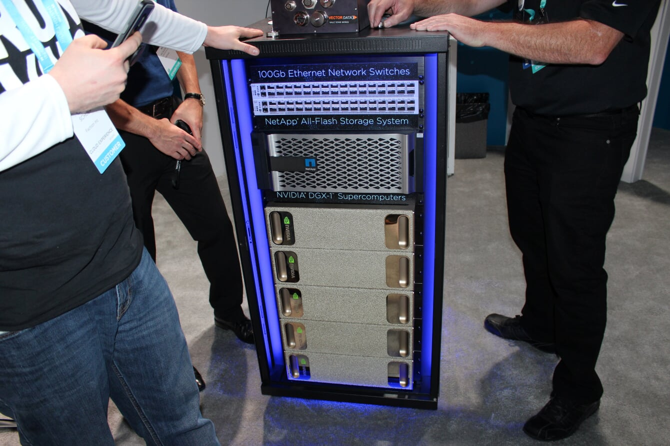 NetApp All-Flash FAS system with NVIDIA DGX Supercomputer